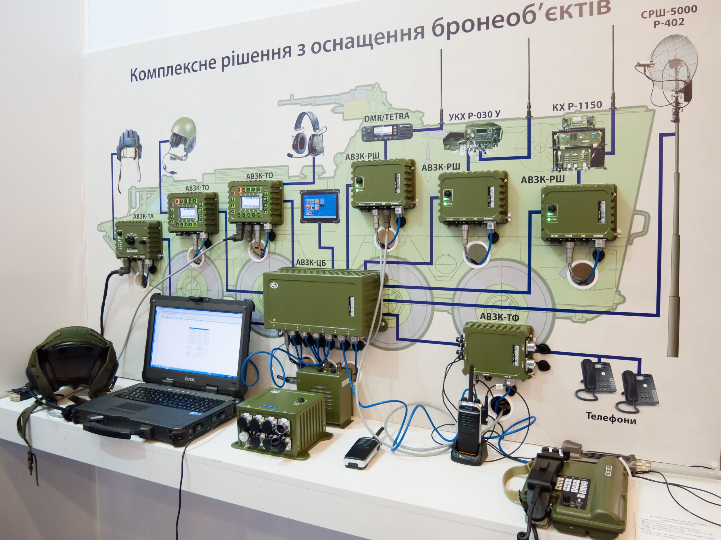 Telekart-Prilad (Ukraine) military communication devices, 'Zbroya ta Bezpeka' military fair, Kyiv, Ukraine, 2018